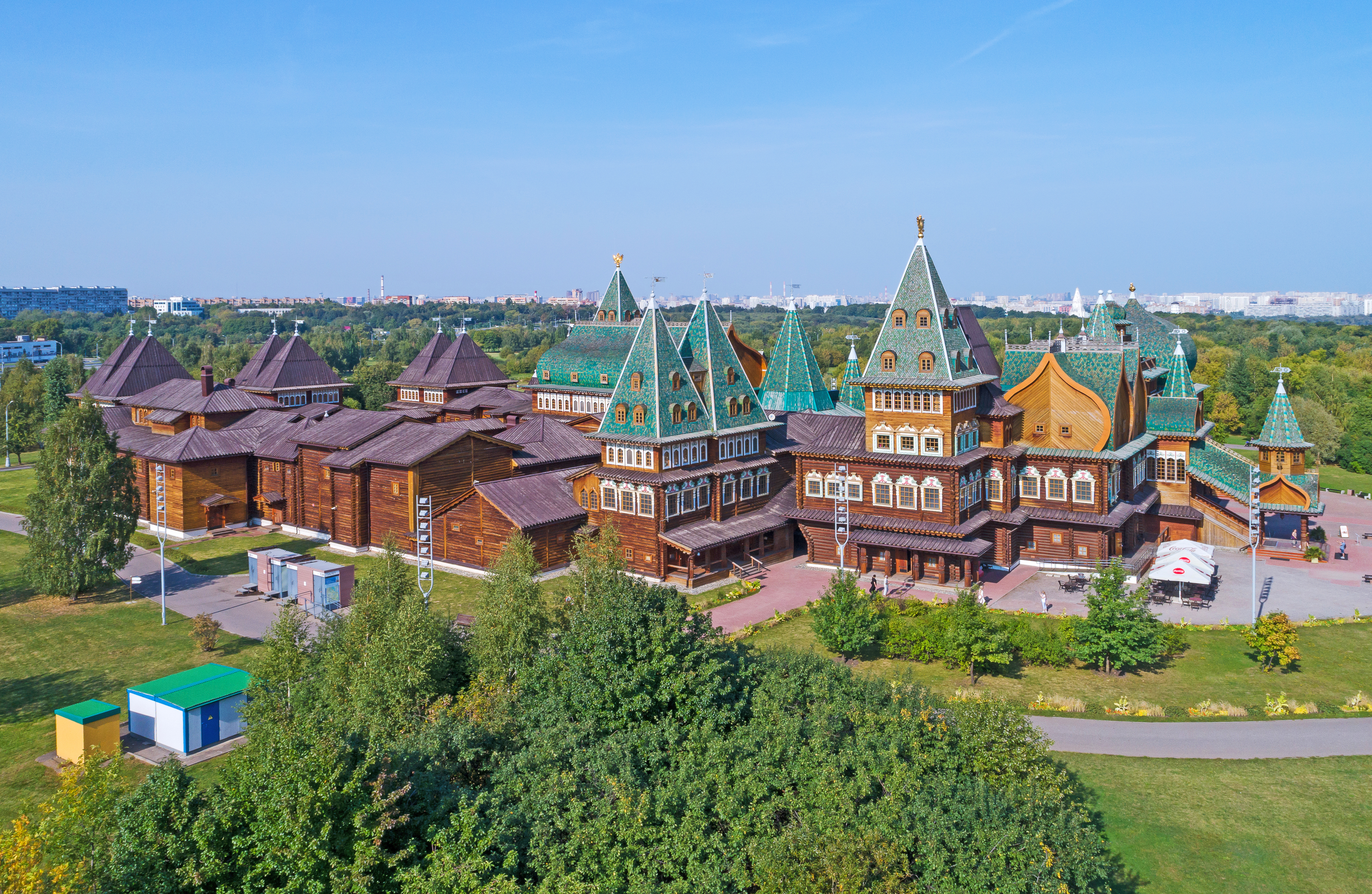 Restored wooden palace of tsar Alexey in Kolomenskoye, Moscow, Russia